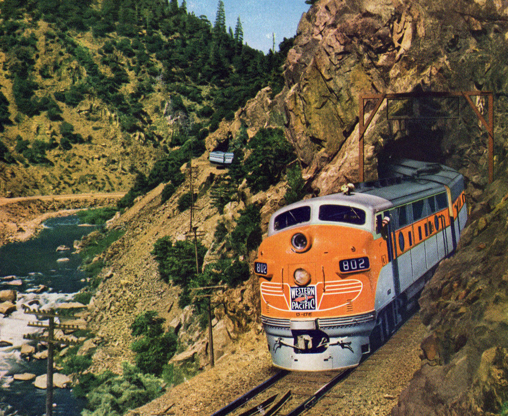 Ad for Standard Oil Company featuring the California Zephyr in 1949 from the Saturday Evening Post. The train is shown in California's Feather River Canyon.